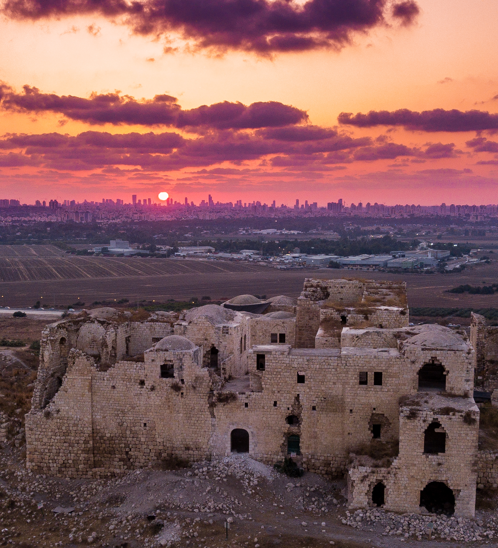 Afek Castle (a.k.a Tzedek Castle) near Rosh HaAyin, Israel. It is actually an old estate and not a castle.